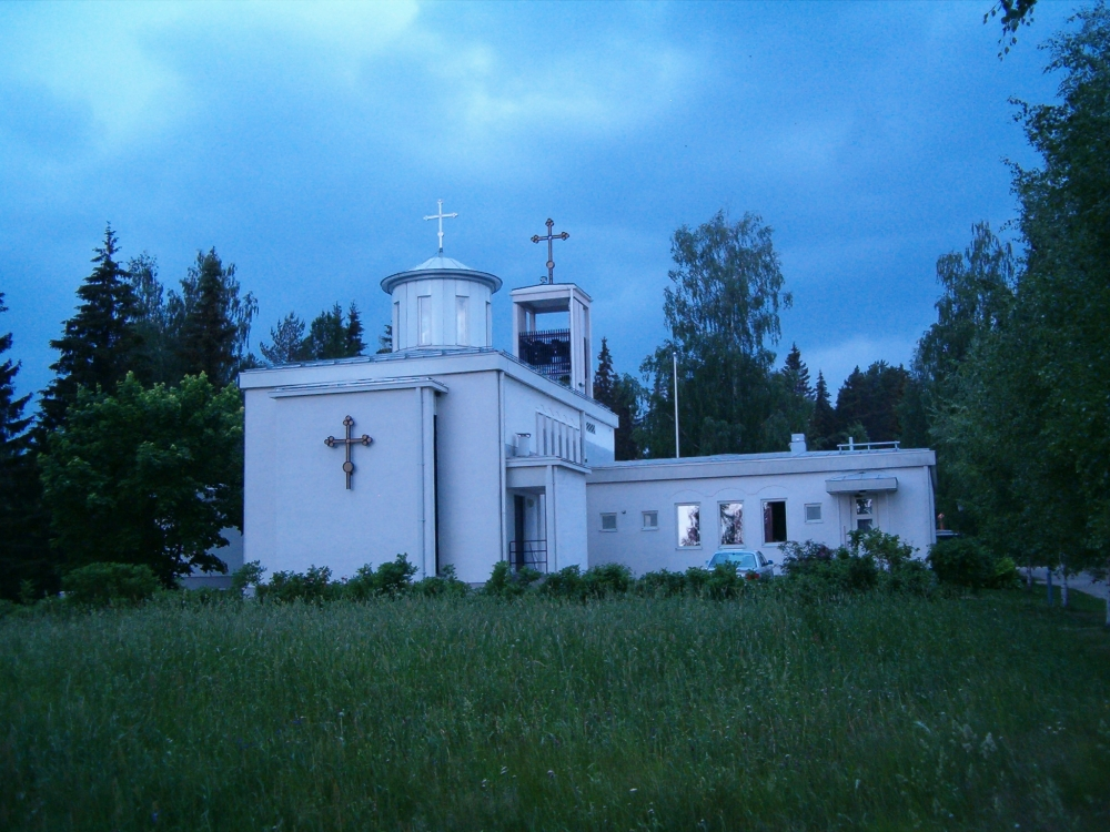 The Church of Lintula orthodox convent in Heinävesi, Finland.